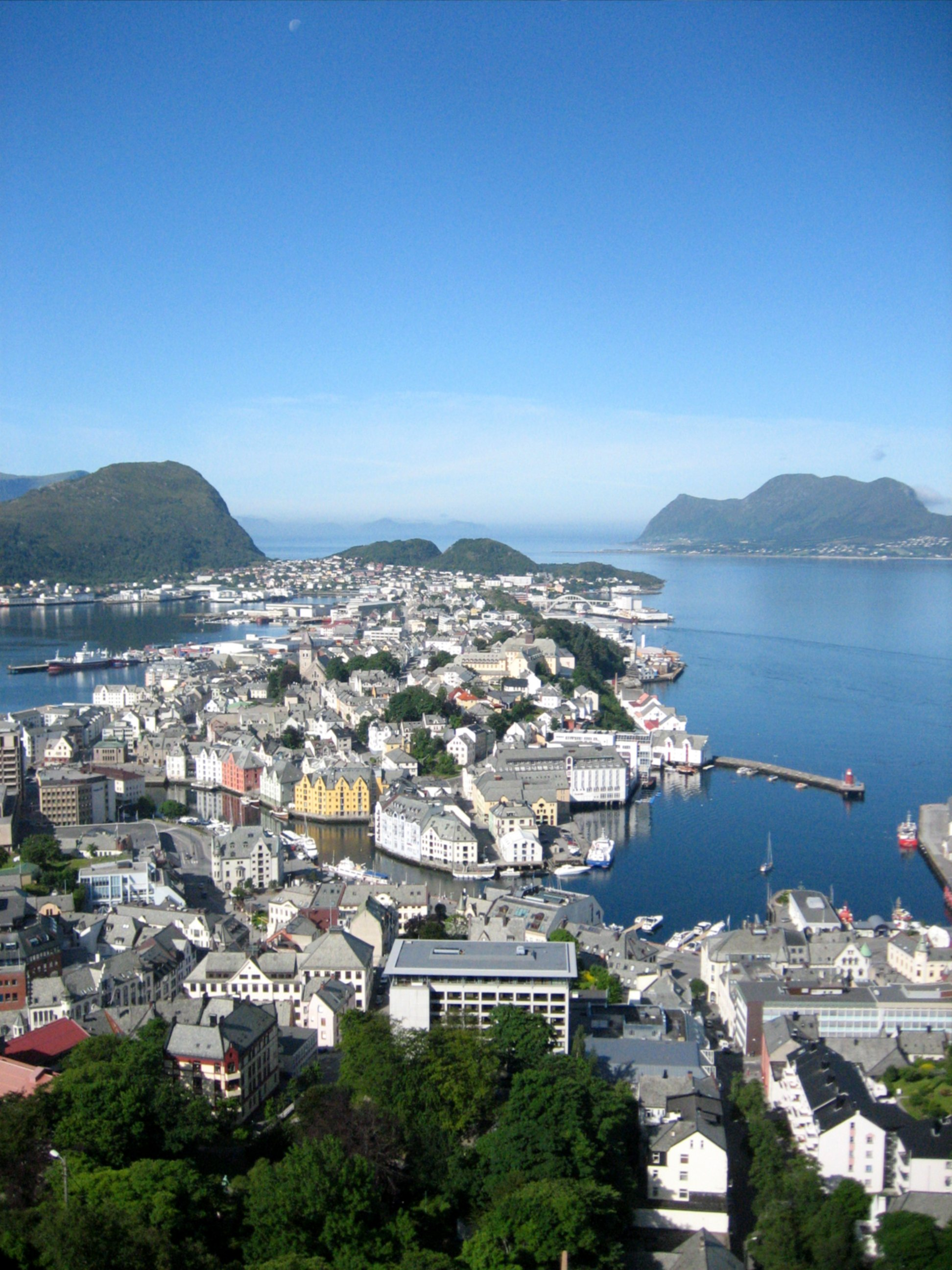 View from the mountain Aksla over the western part of the city of Ålesund in Norway